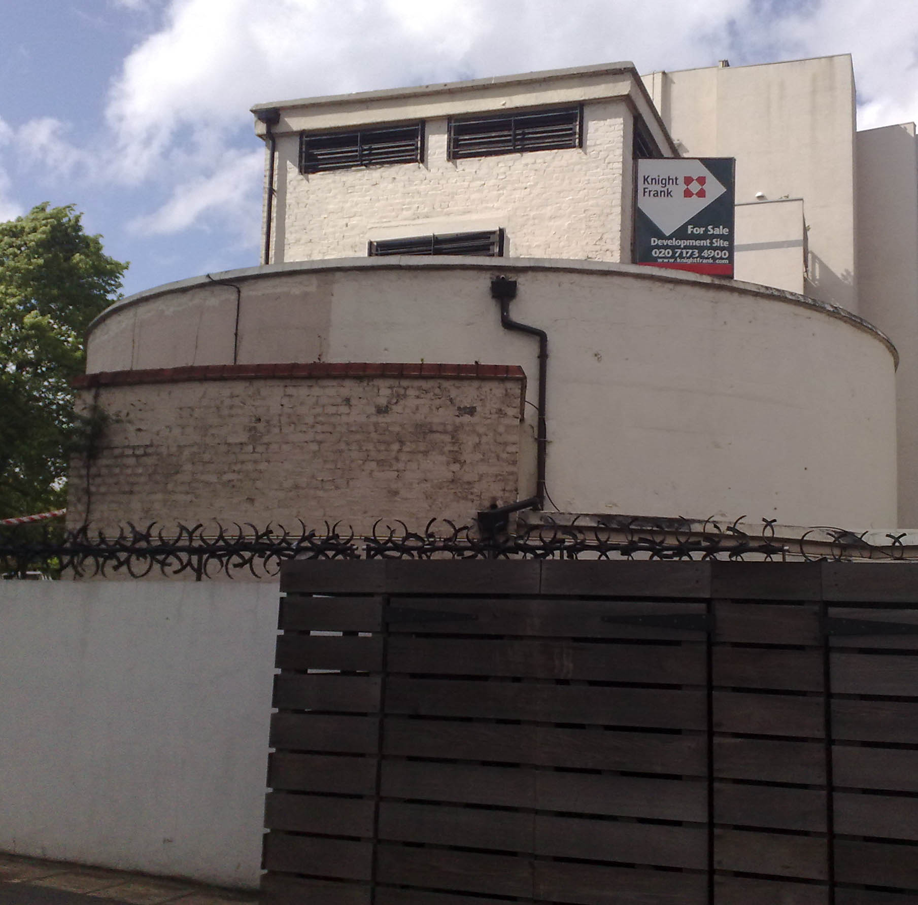 One of the entrances to Clapham South deep level shelter, in Clapham, London.